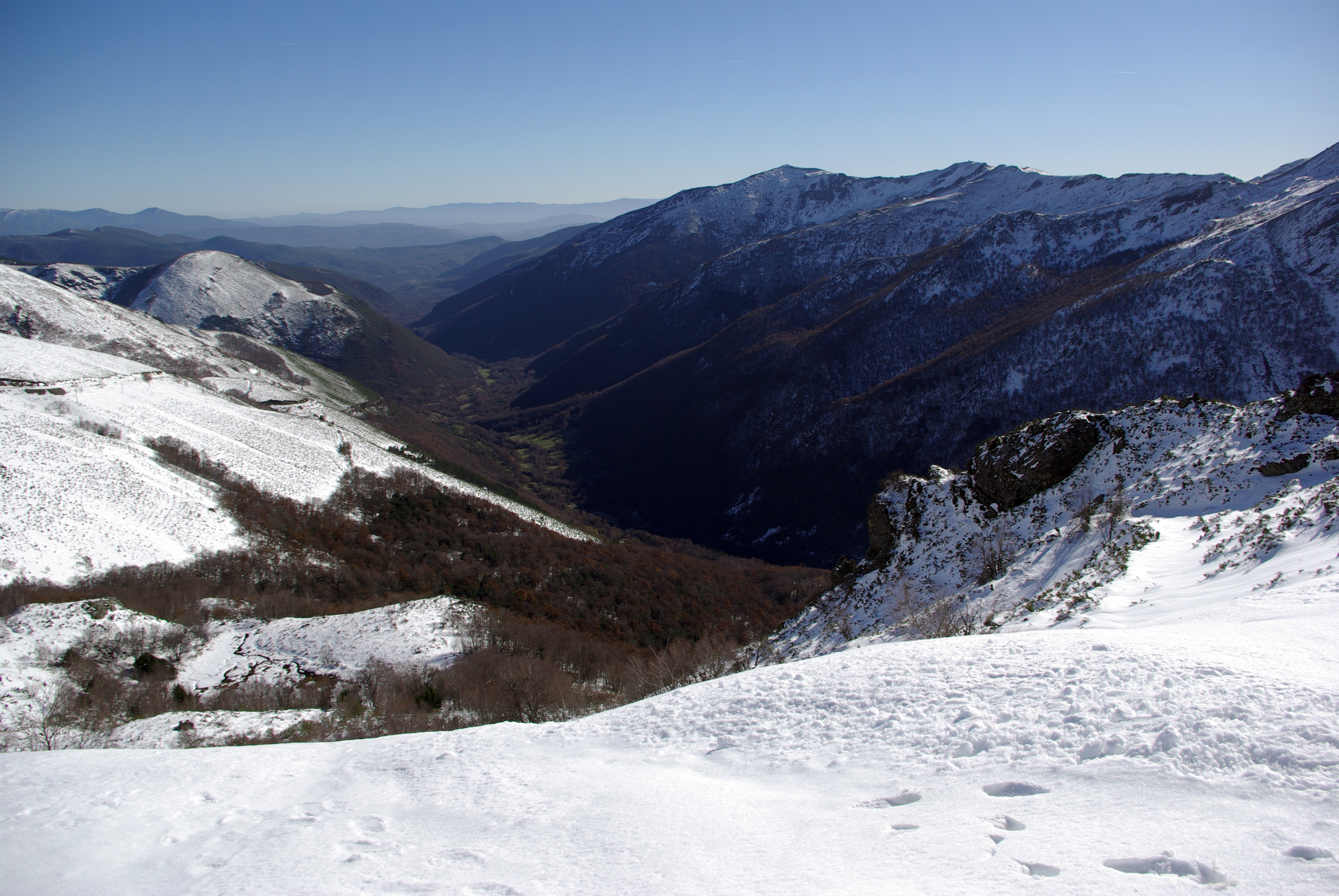 Ancares range and valley from Ancares pass (Candín, León, Spain)